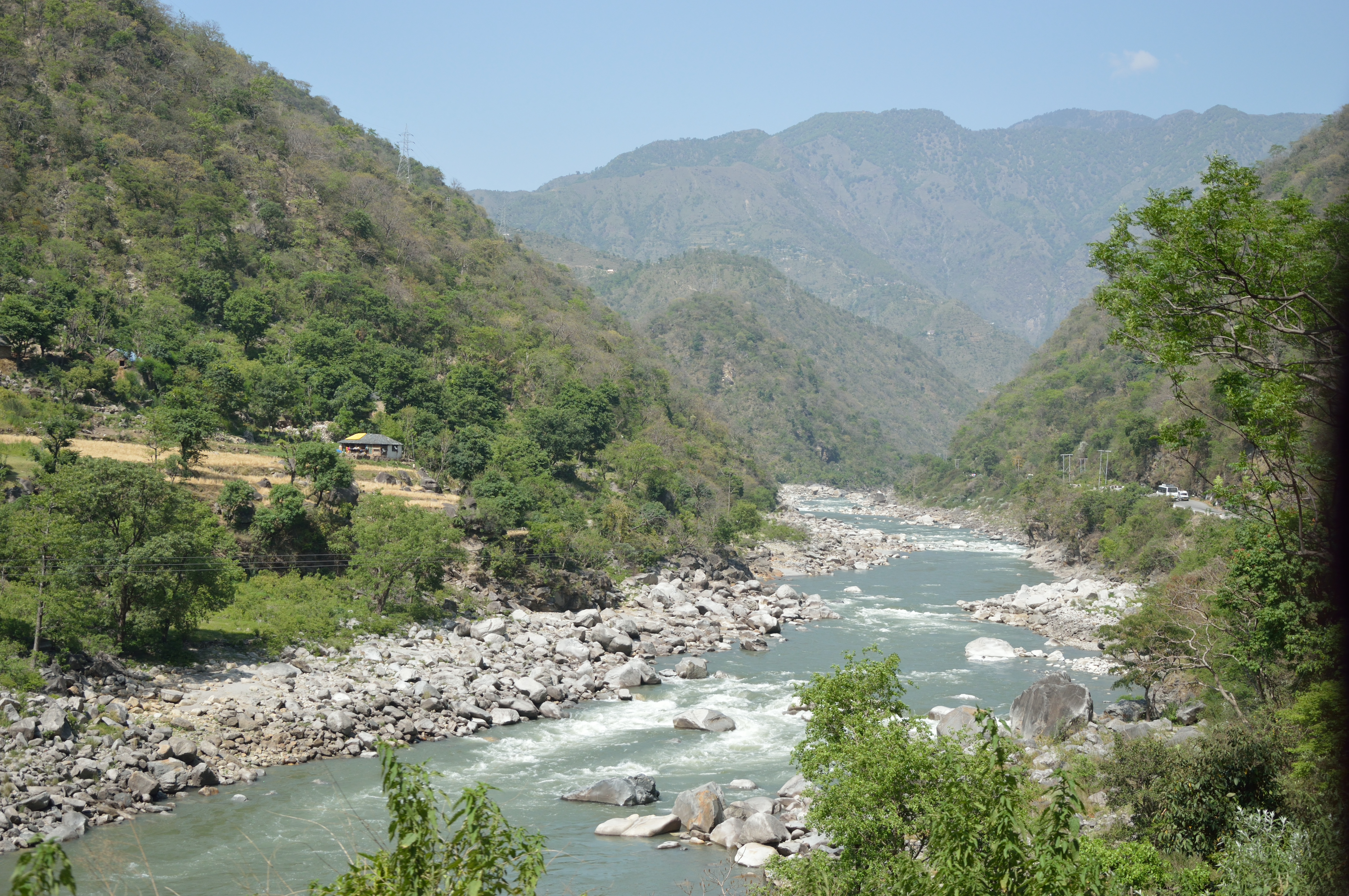 Photographed in Himachal Pradesh.